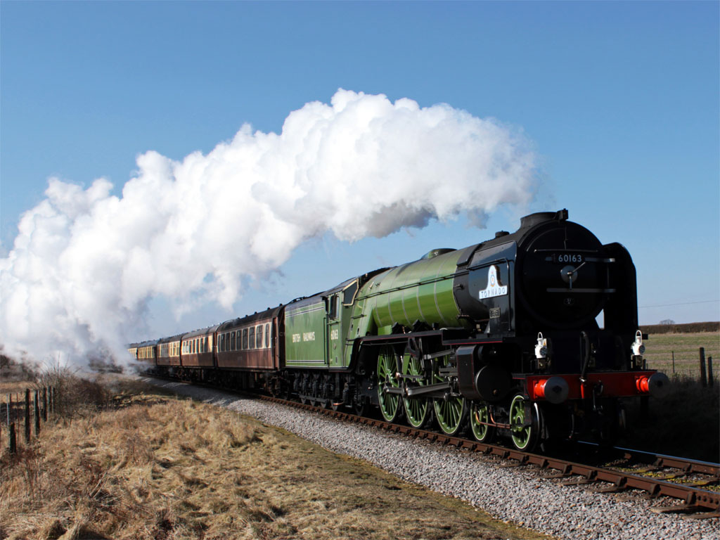 Peppercorn Class A1 Pacific on the Watercress Line running from Alresford to Ropley station. Taken during the Great Southern Steam Gala.